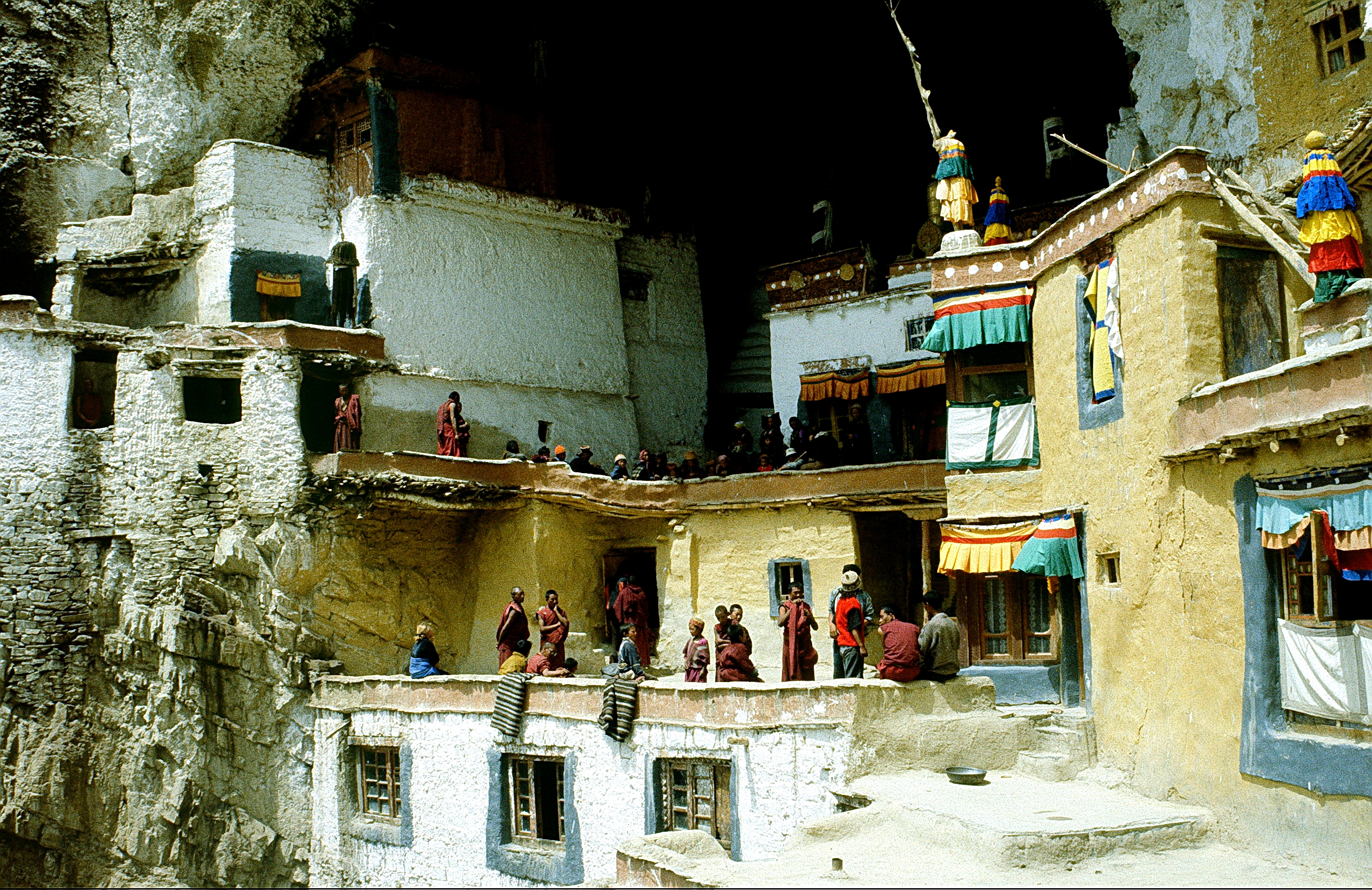 The buddhist monastery (gompa) of Phuktal, Zanskar.